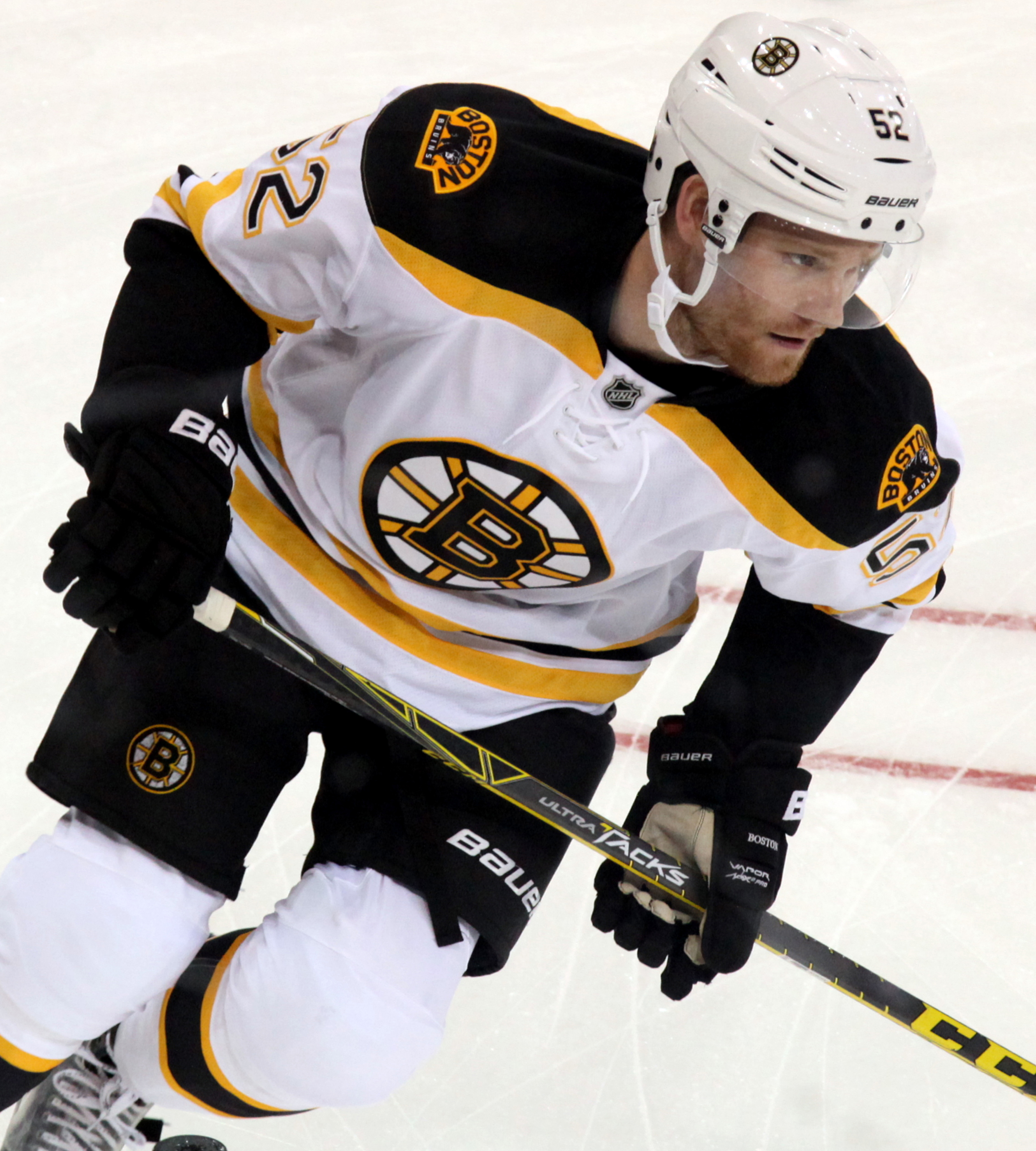 Irwin in September 2015.